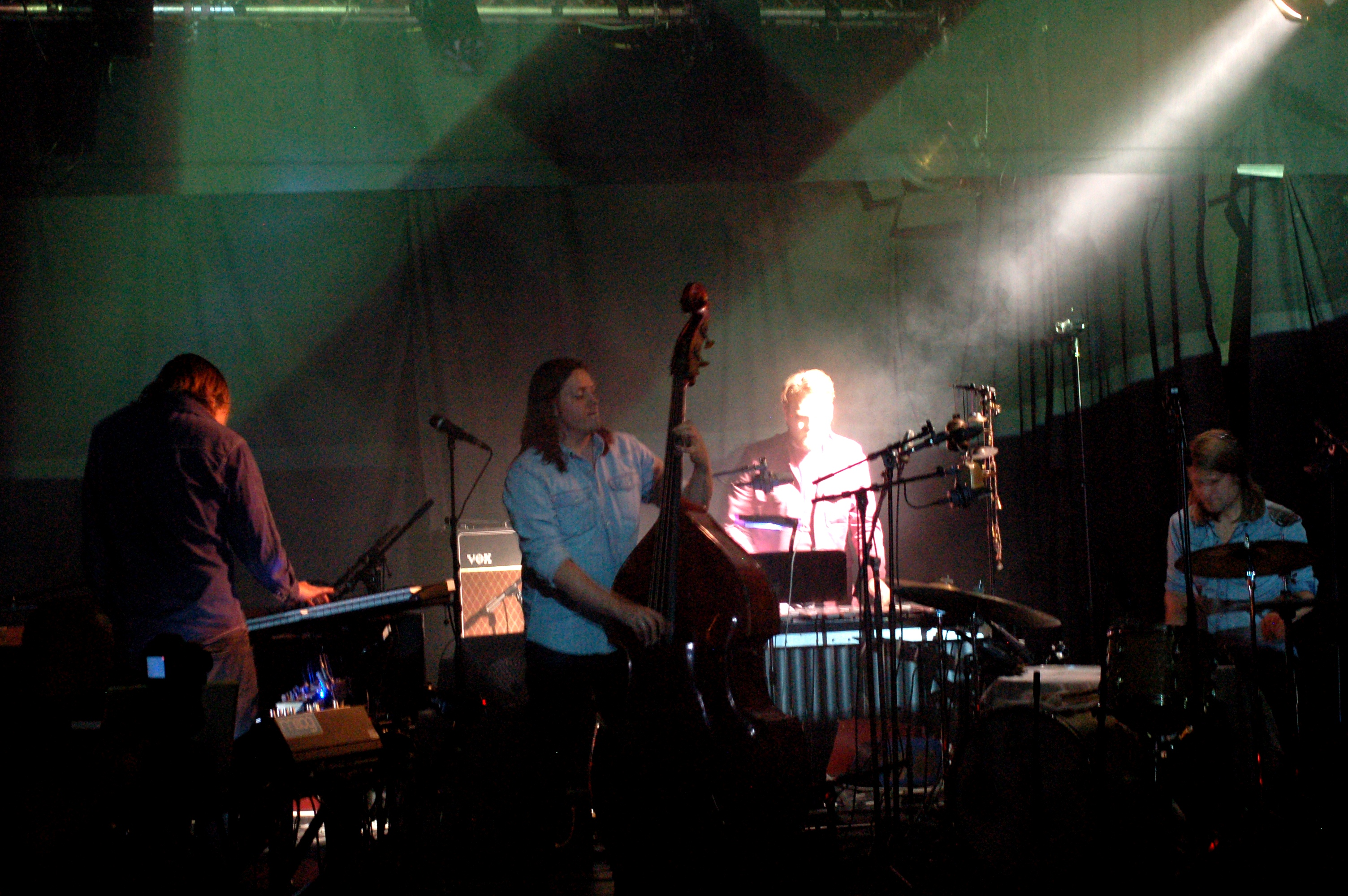 "In The Country" in consert at Energimølla in Kongsberg (Norway). october 13, 2010. Photo: Thomas Bjørndahl